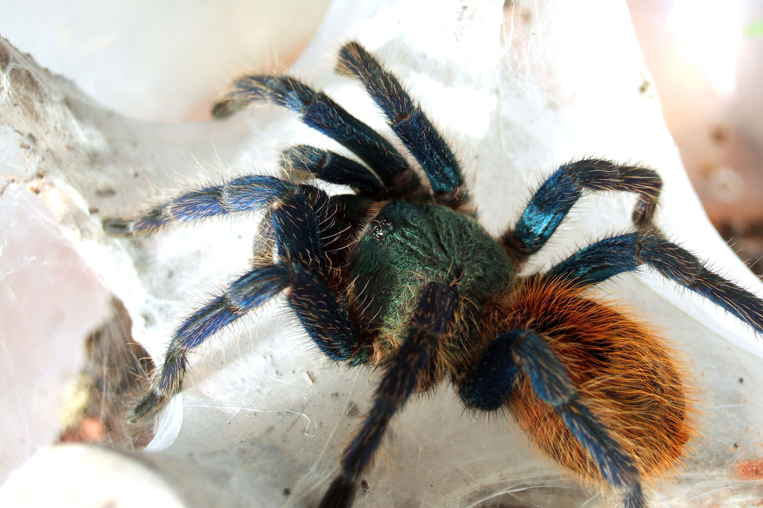 Chromatopelma_cyaneopubescens